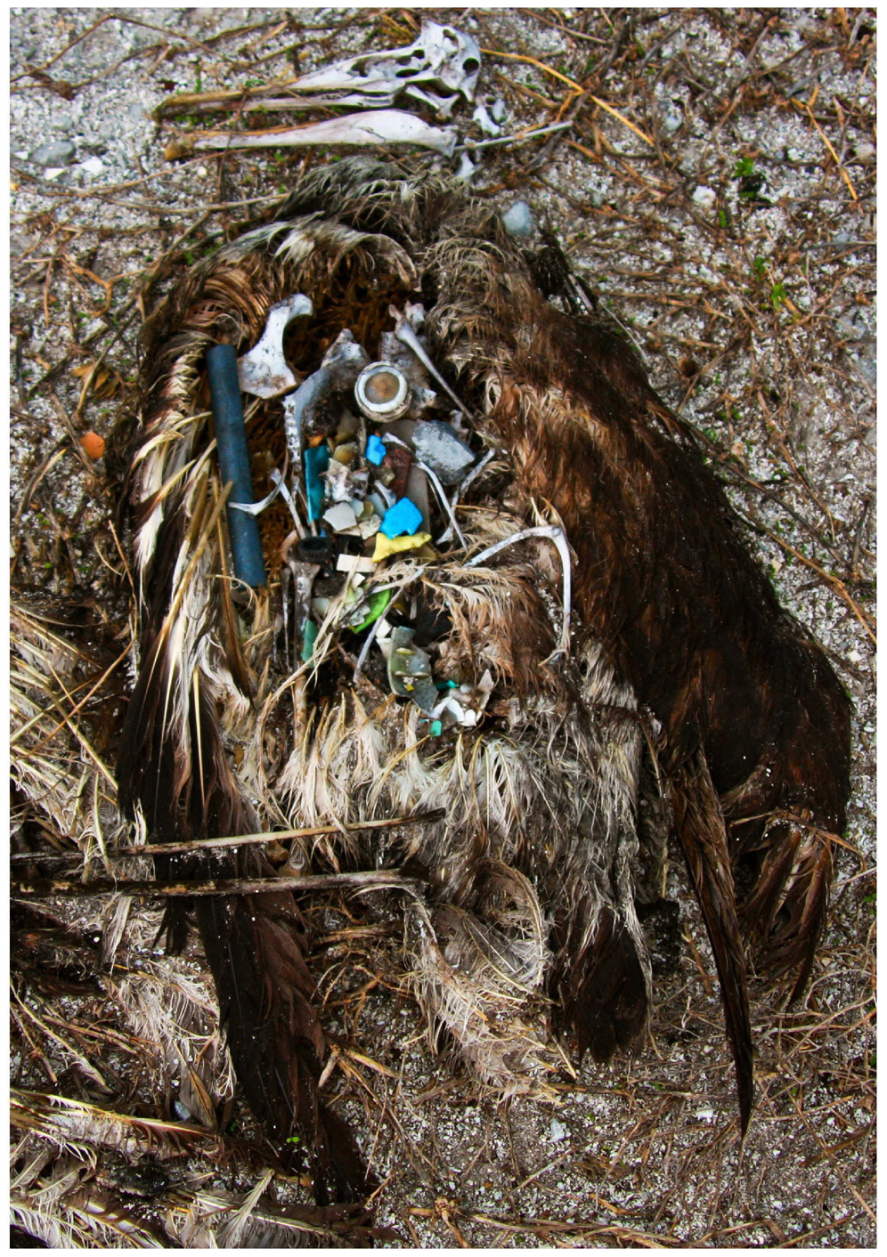 Photograph of a dead Laysan Albatross chick with plastic in its stomach